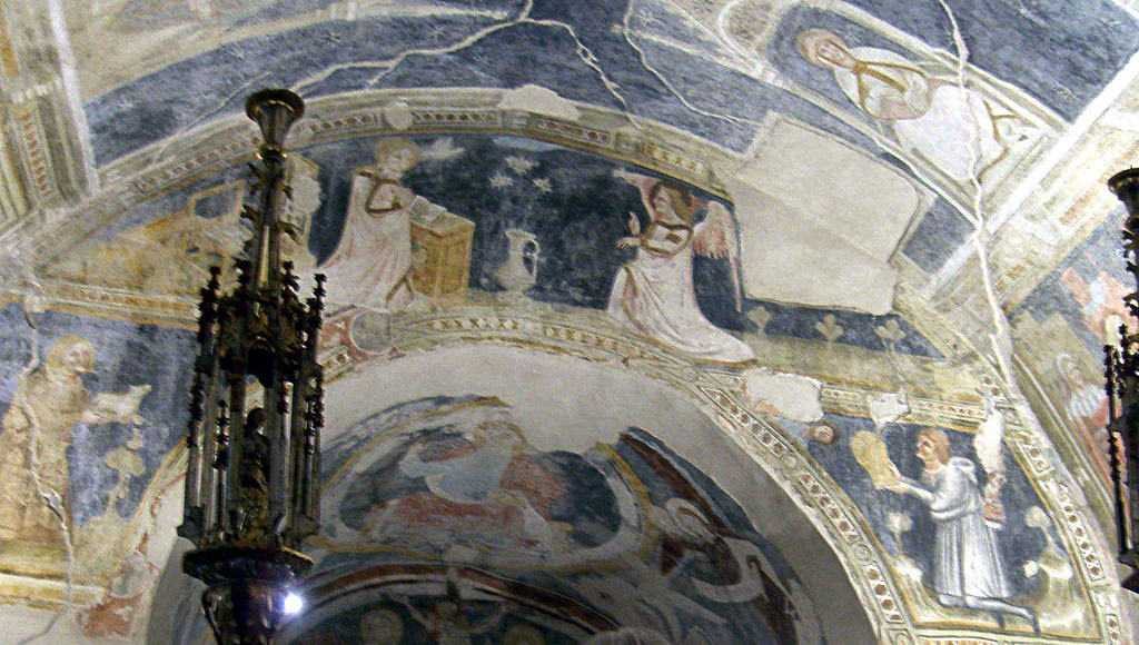 St. Magdalena near Bozen (Bolzano) Romanic church.